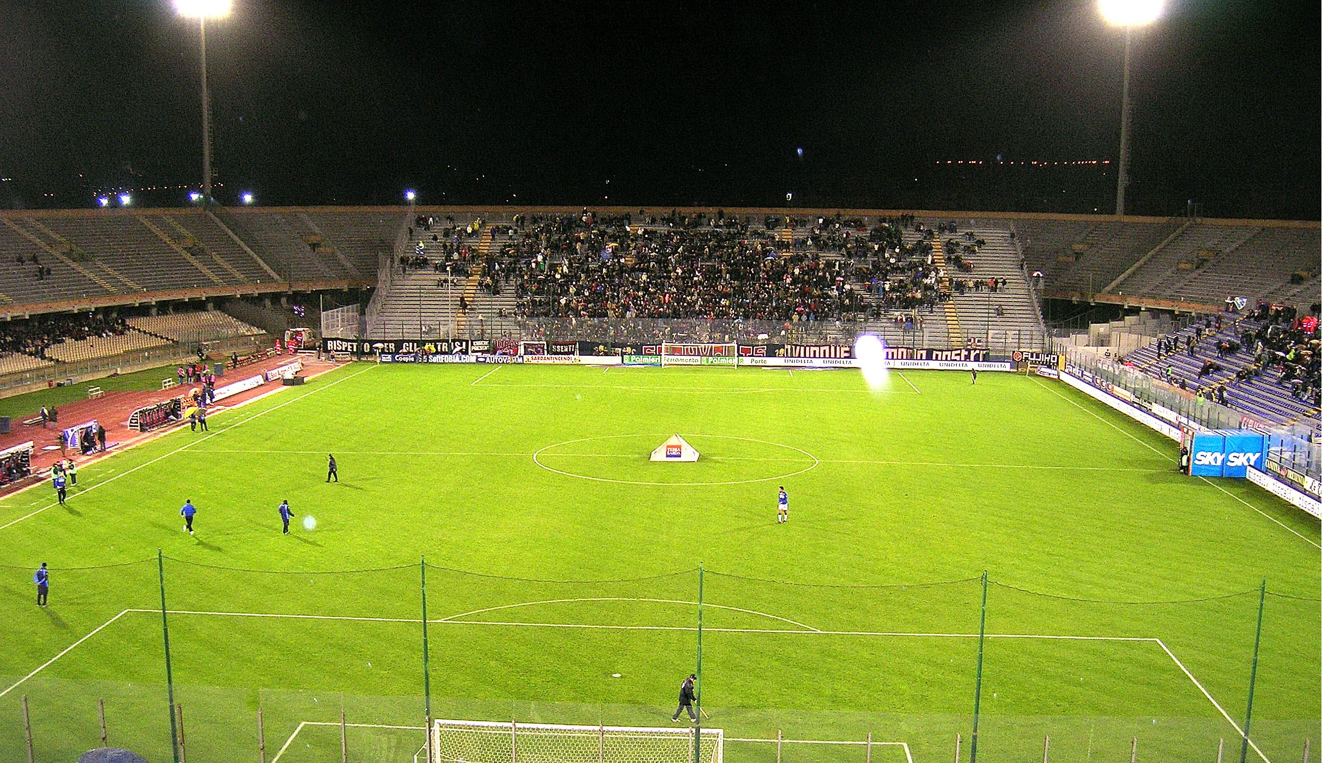 Stadio Sant'Elia is a football stadium in Cagliari, Italy. It is currently the home of Cagliari Calcio.